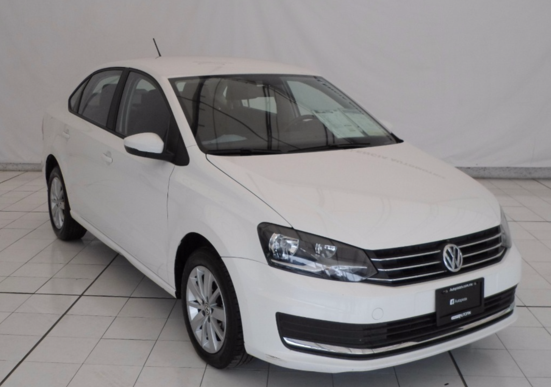 Volkswagen Vento Facelift 2015 to present. Mexico